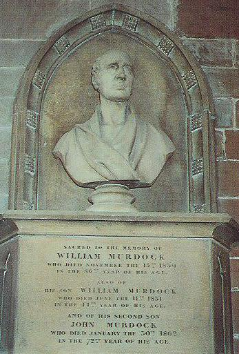 Memorial in St.Mary's Church, Handsworth, Birmingham UK, to William Murdock Sibadd 19:43, 30 May 2006 (UTC)